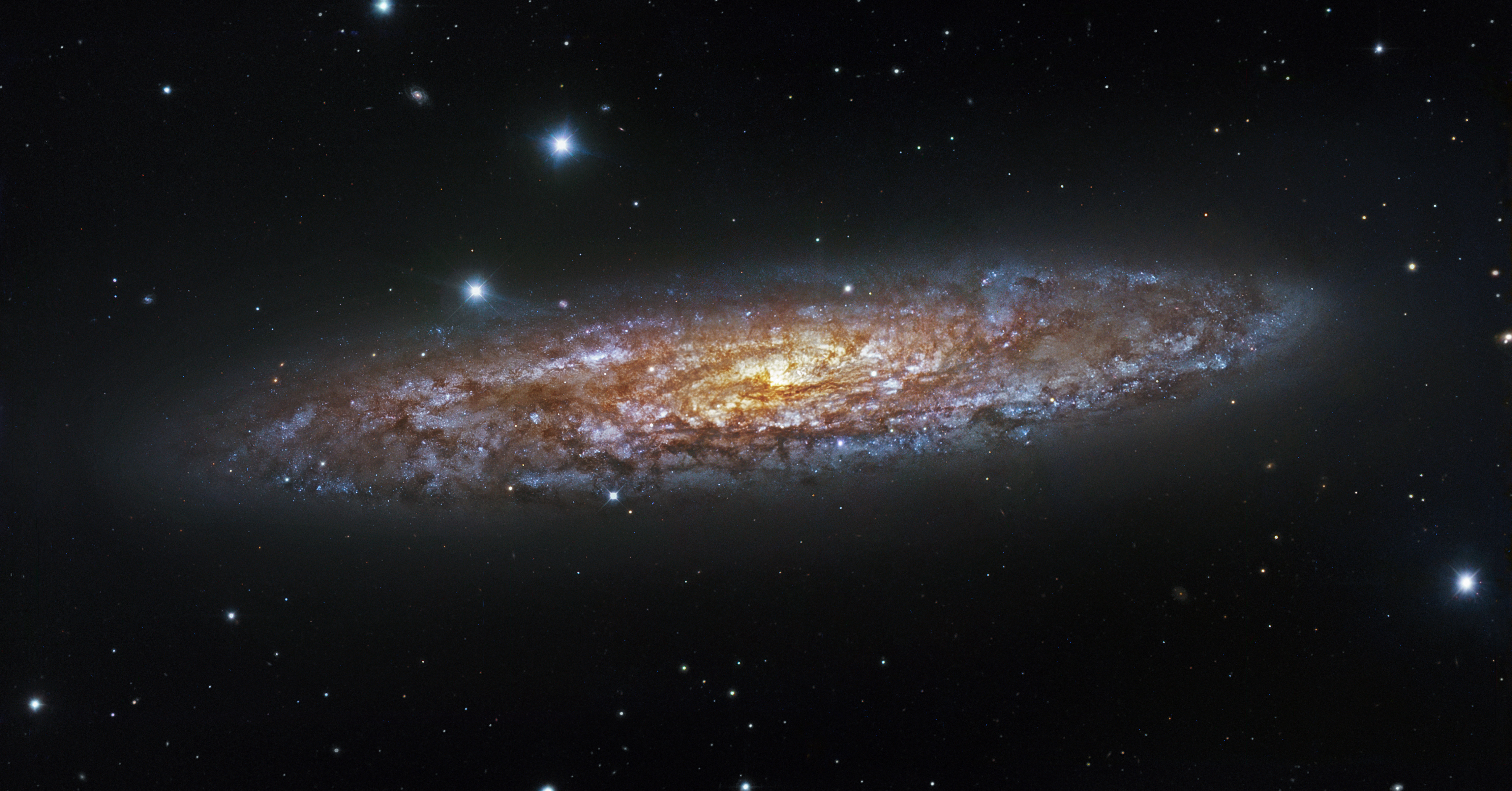 NGC 253, also known as the Sculptor Galaxy, is the brightest of the Sculptor Group of galaxies, found in the constellation of the same name, and lying approximately 13 million light-years from Earth. The Sculptor Galaxy is known as a starburst galaxy for its current high rate of star formation, one result of which is its superwind, a stream energetic material spewing out from the center of the galaxy out into space. The purple light comes from that frenzy of star formation, which originally began 30 million years ago, while the yellowish color is created by dust lit up by young, massive stars. This image combines observations performed through three different filters (B, V, R) with the 1.5-metre Danish telescope at the ESO La Silla Observatory in Chile.